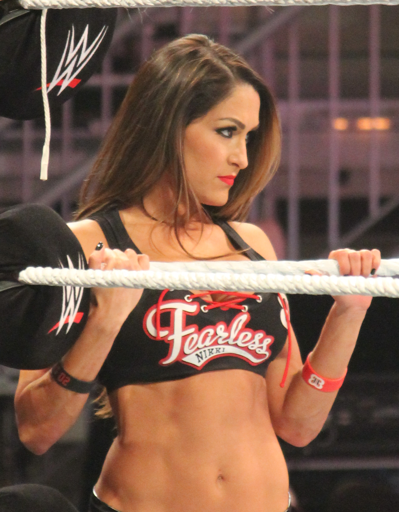 Nikki Bella on the ring apro during an episode of Raw in September 2014. Cropped from original image.